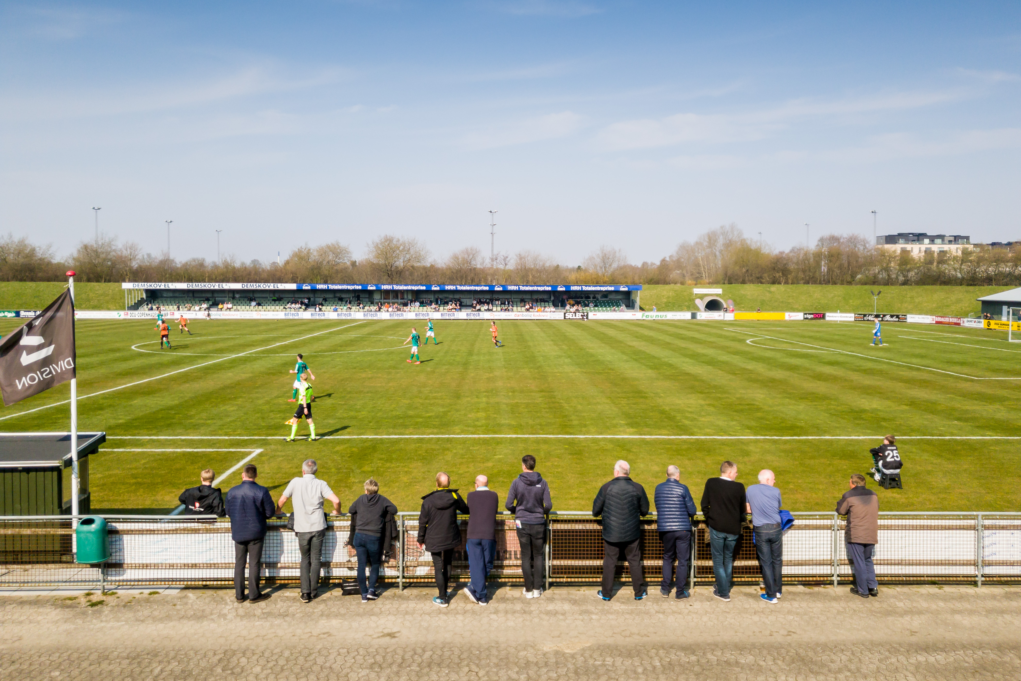 Spectators standing near the playing field on Espelundens Idrætsanlæg during the football match between BK Avarta and Hillerød Fodbold in the Danish 2nd division (6 April 2019)